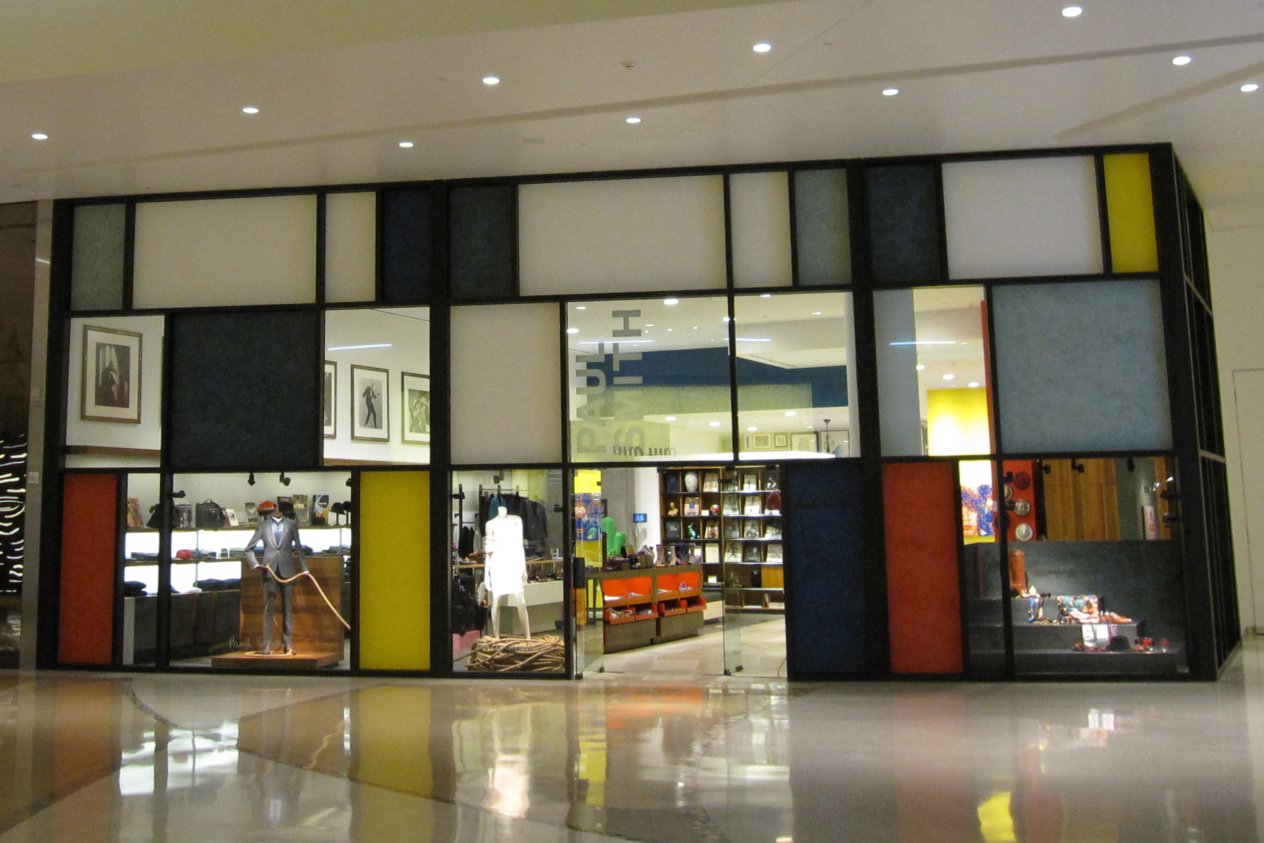 Shop in the The Crystals in Las Vegas